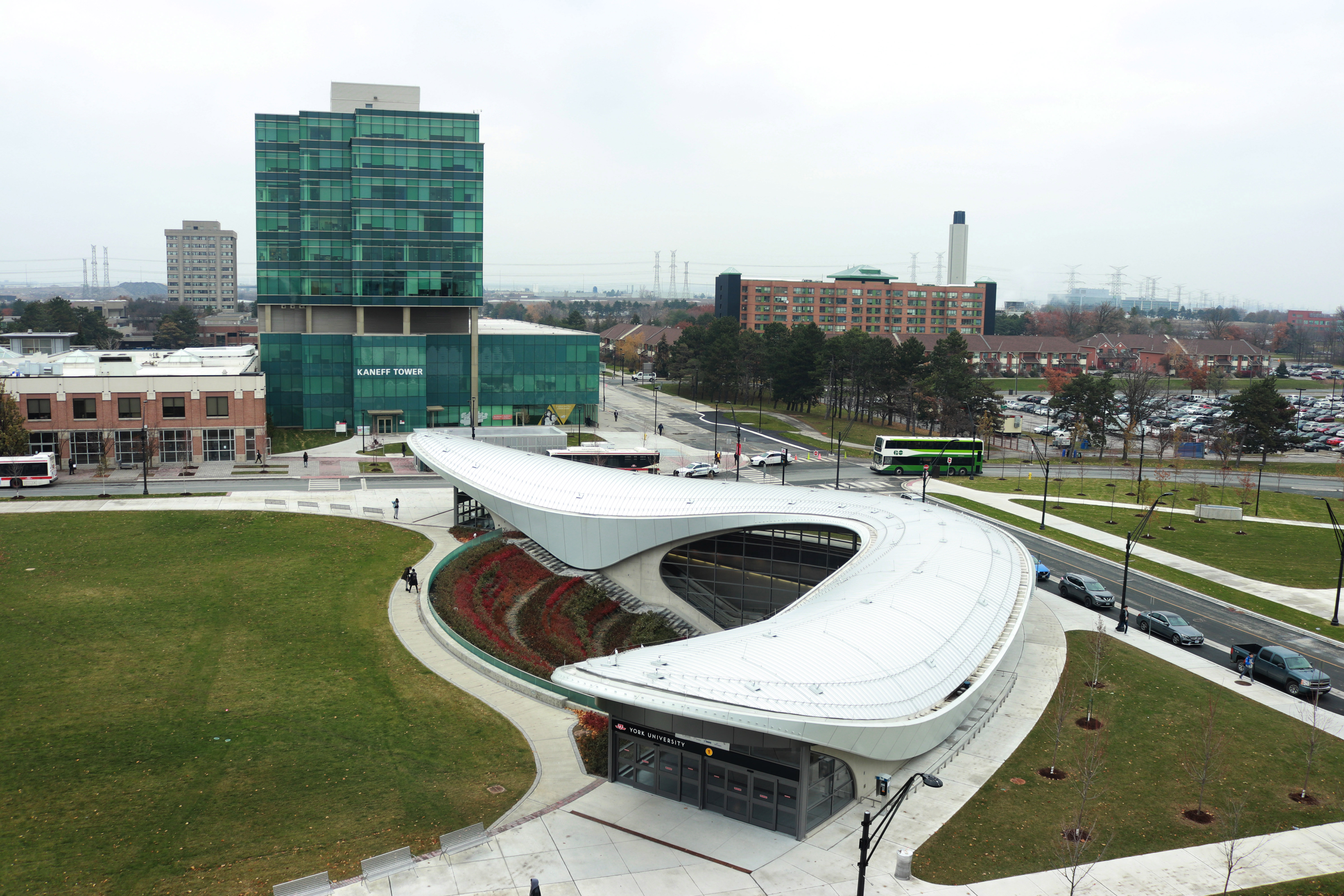 The view of York University Subway station from roof of Accolade East.